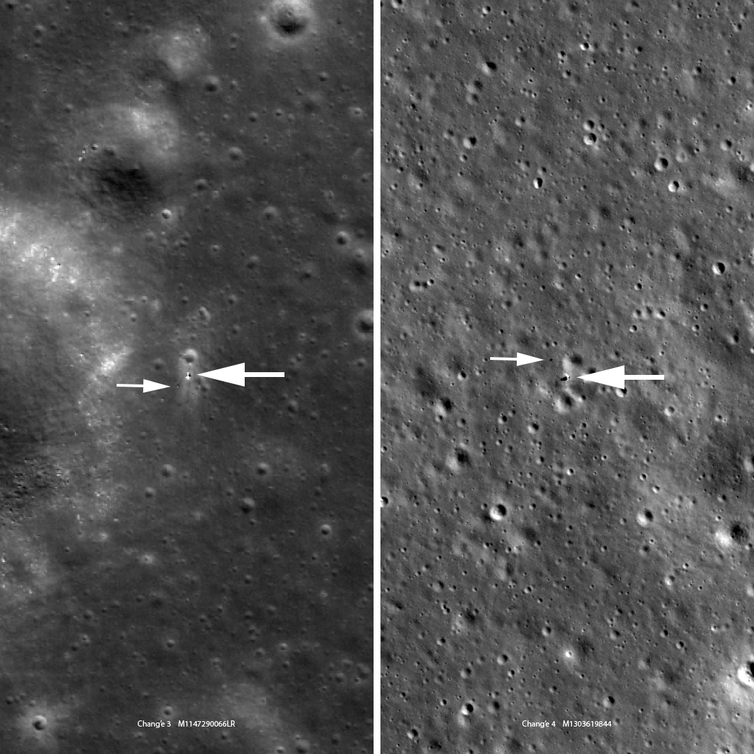 Chang'e 3 (left, M147290066LR) and Chang'e 4 (right, M1303619844LR) are very similar in size and instrumentation. The Chang'e 3 image looks a bit fuzzier because the landing site is at 44° north latitude where the LRO orbit is about twice as far from the Moon relative to the Chang'e 4 site at 45° south latitude (1.6 meter pixels enlarged to 0.85 meter pixels; 5.2 feet vs. 2.8 feet). Each panel is 463 meters (1520 feet) wide, large arrows indicate landers and small arrows indicate rovers